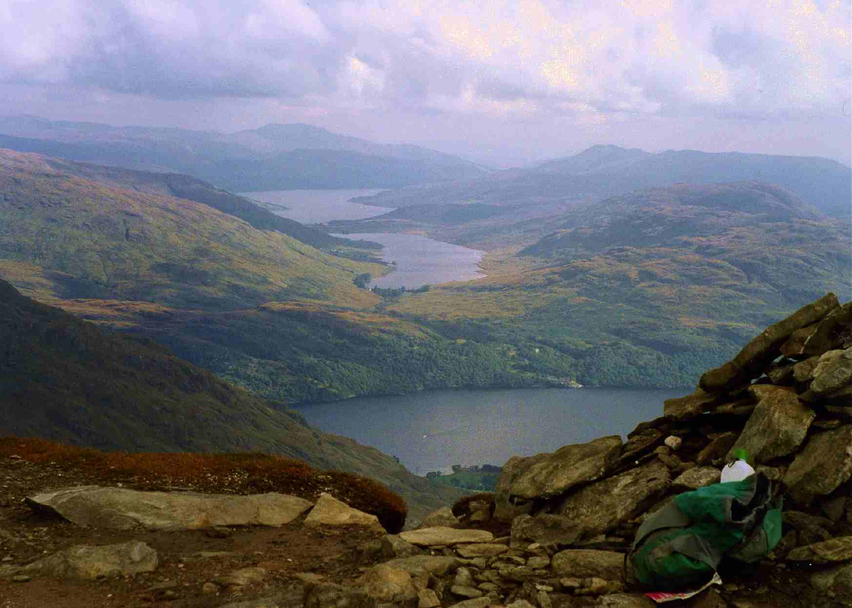 Lochs Arklet and Katrine seen over Loch Lomond from the summit of Ben Vane Personal photograph taken by Mick Knapton in September 1993